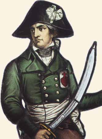 Stained glass window of the Church of Notre-Dame in Beaupréau presenting a portrait of general Jean-Nicolas Stofflet